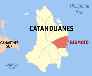 Map of Catanduanes showing the location of Gigmoto